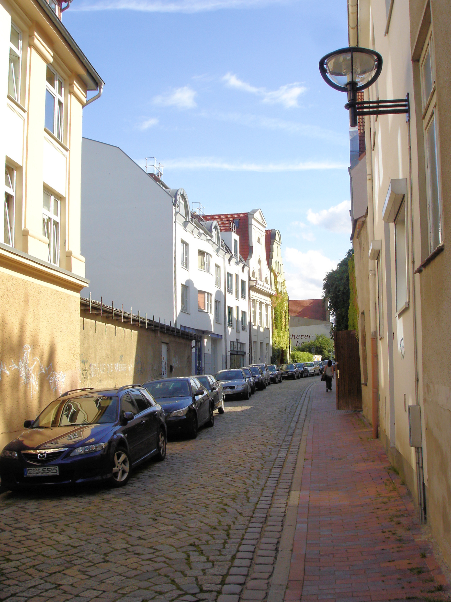 Street in the historic city of Rostock